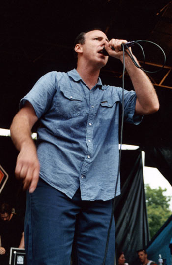 Greg Graffin (singer of Bad Religion)